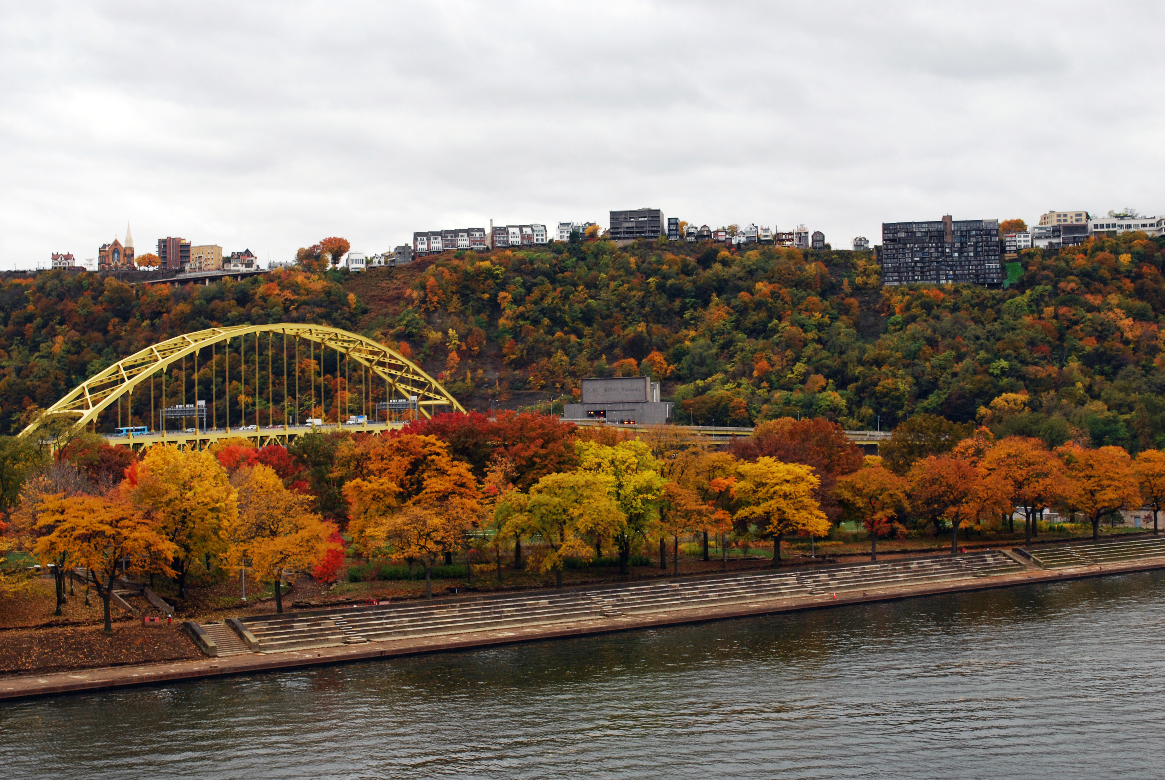 Point State Park in Fall